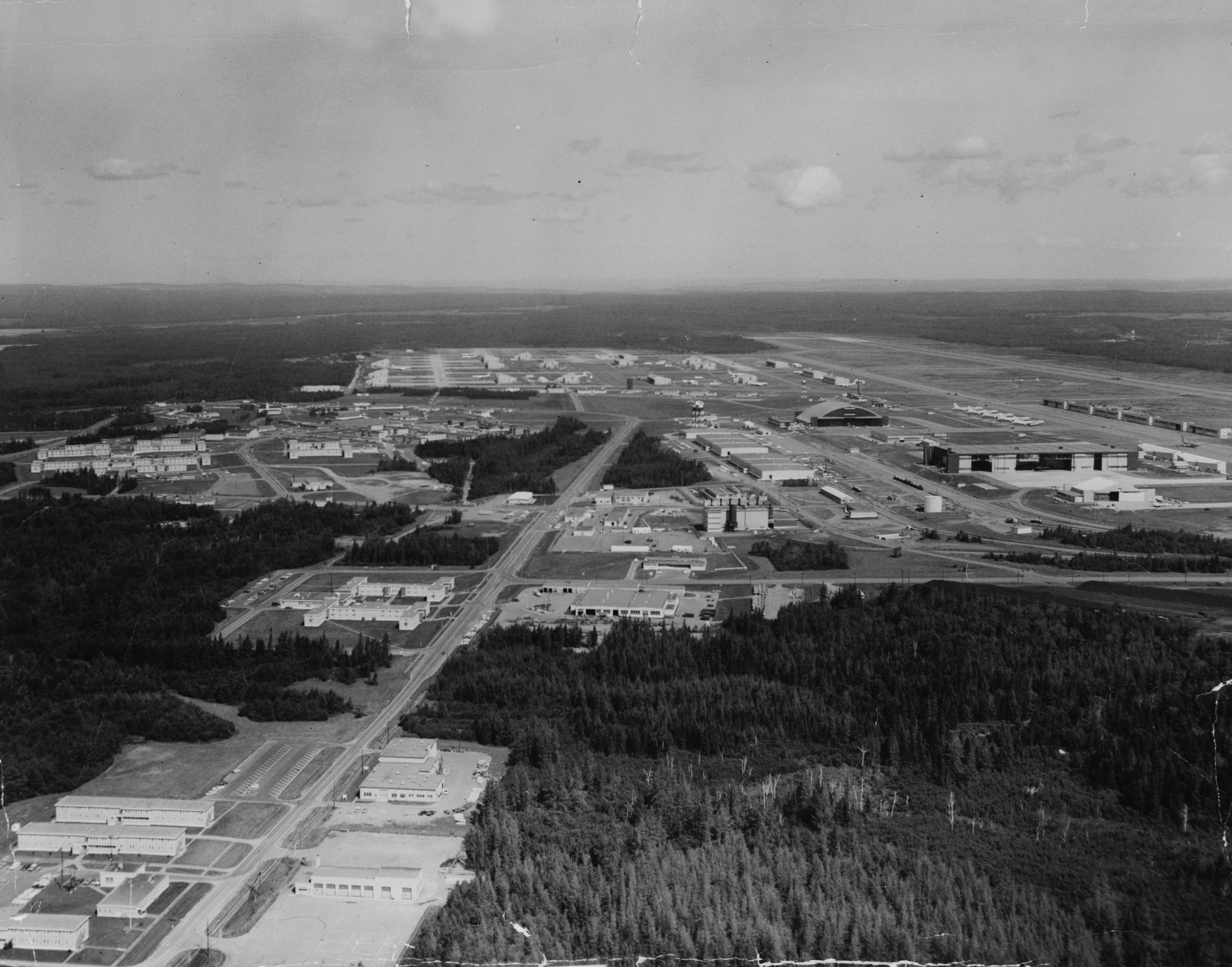 Loring Air Force Base, Maine Aerial photograph of west side of base. HAER ME,2-LIME.V,1A-9